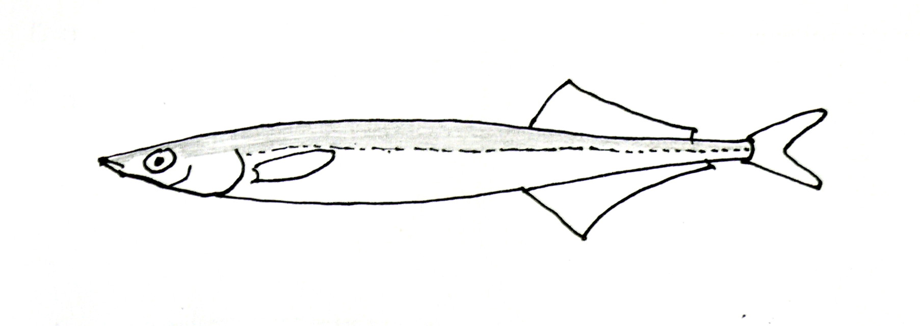 Korean sandeel (Hypoptychus dybowskii) Steindachner, 1880